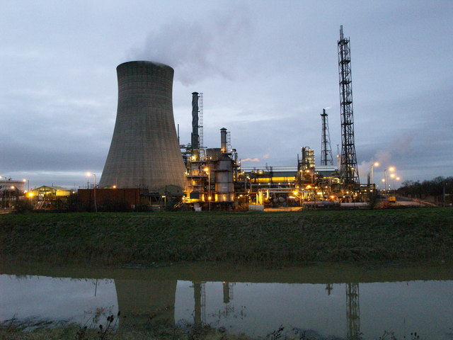 Chemical Works at Dusk, Salt End, East Riding of Yorkshire, England.This is the Saltend Site from the bank of Hedon Haven.